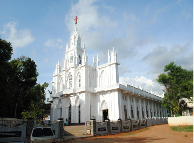 View of the Church on a normal day